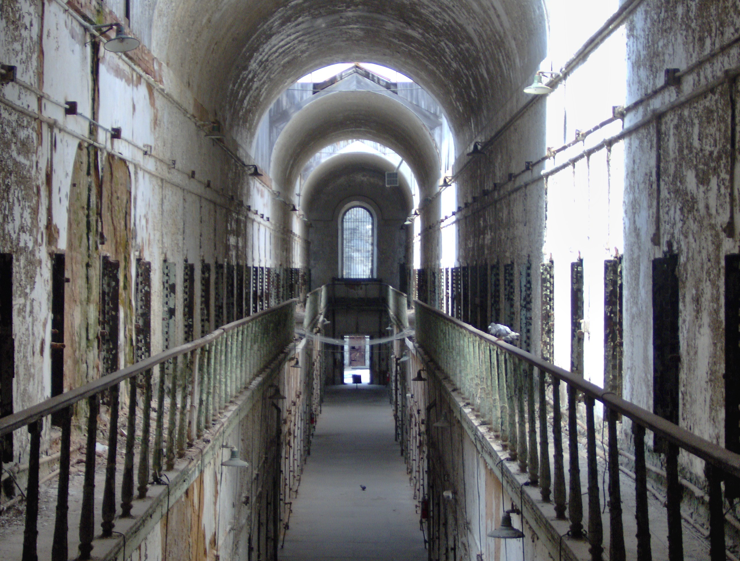 A photograph from inside Eastern State Penitentiary in Philadelphia, PA. Taken in May 2006.